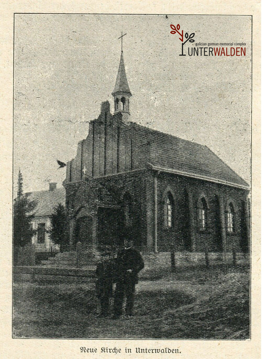 Lutheran Church in Pidhaychyky, Zolochiv district, Lviv region, Ukraine. The photo was made in 1911 and published in the 1913 in galizien german calendar.